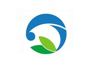 Flag of Makinohara Shizuoka